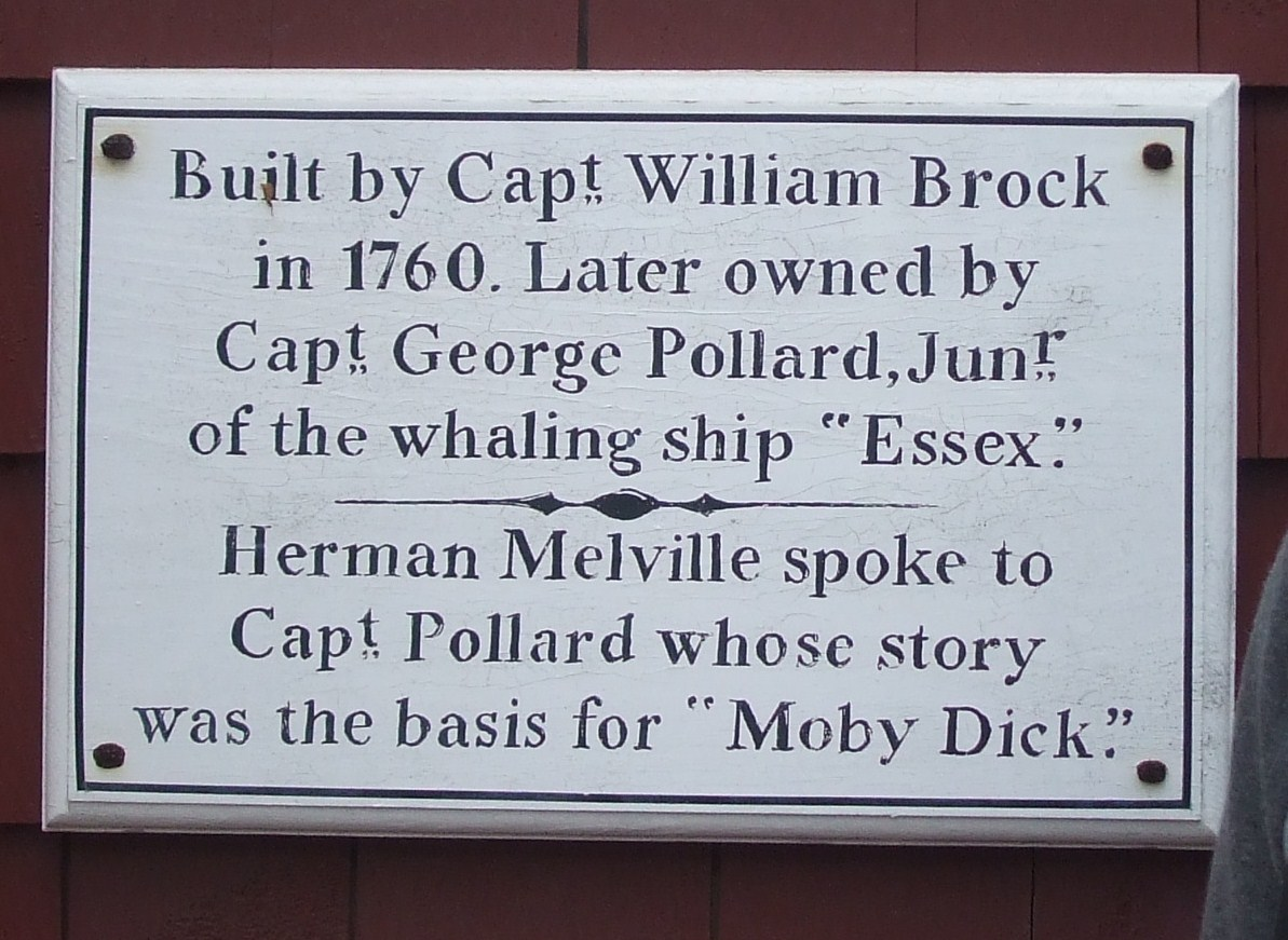 Plaque on the Capt George Pollard house, whose the story was the basis for Moby Dick, Nantucket, Massachusetts, USA